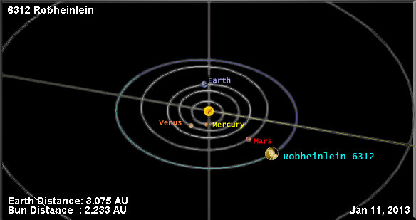 This is an orbital diagram for Robheinlein 6312